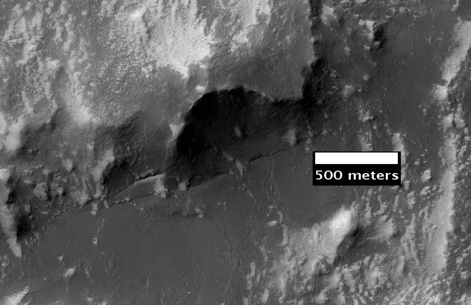 Claritas Fossae as seen by hirise. Location is 28.8 S and 257.9 E.